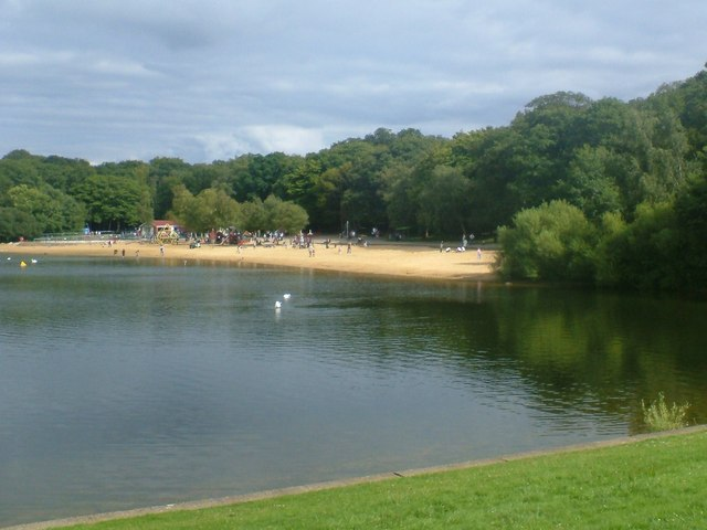 Woody Bay - Ruislip Lido View from the Dam